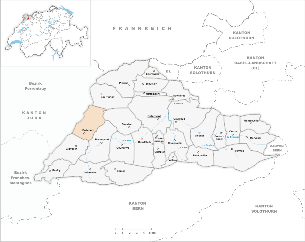 Municipality Boécourt